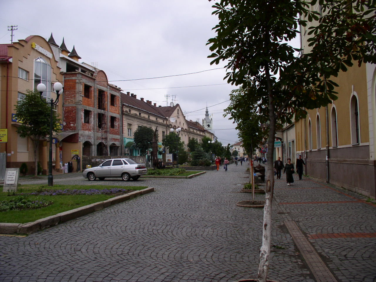 Streets of Mukacheve, Ukraine.